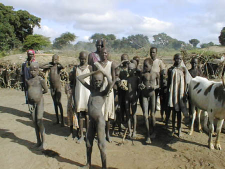 Sudanese people in a cattle camp outside of Rumbek (Rumbik), Lakes State, in what is now central South Sudan.